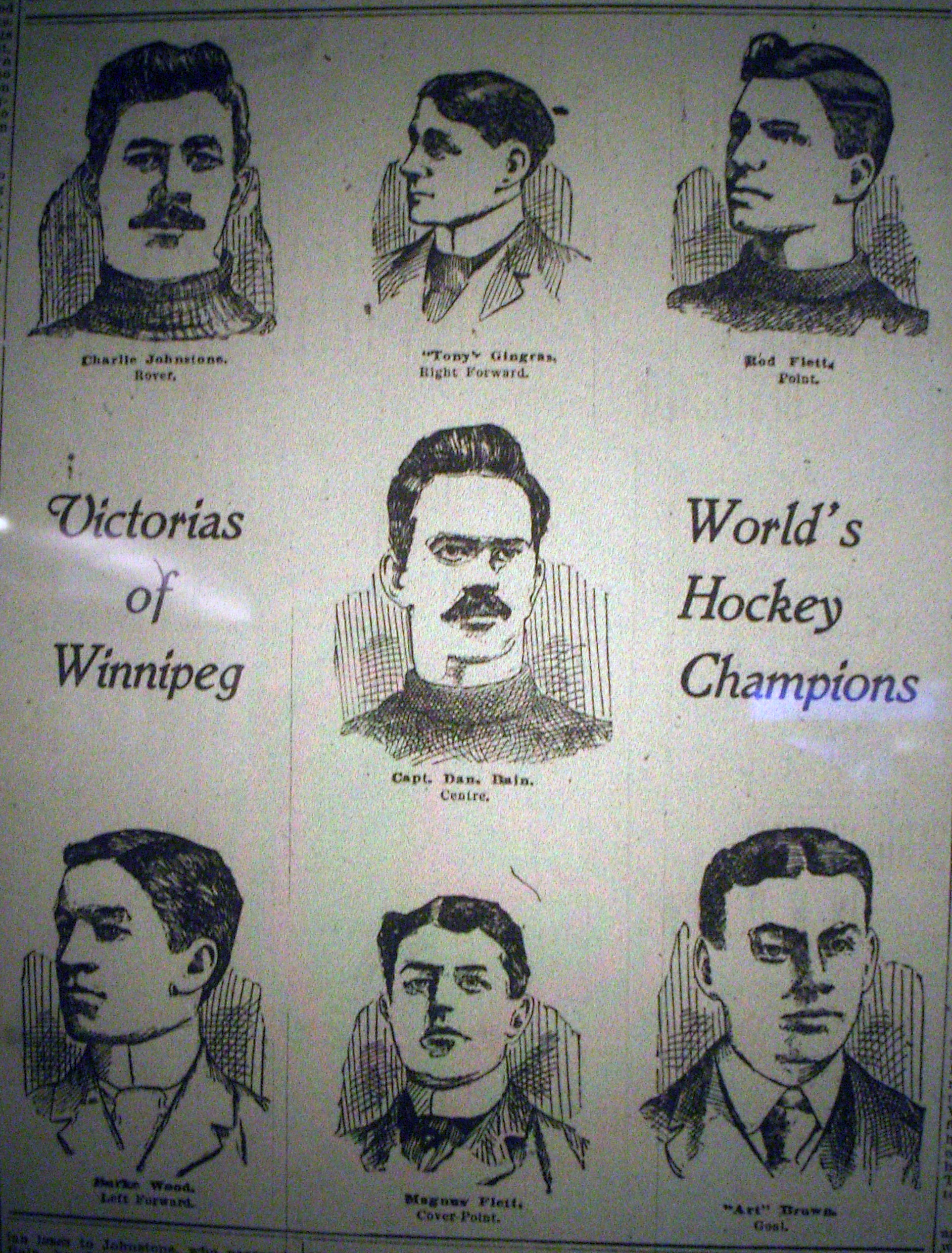 Winnipeg Victorias, as depicted in the 1901 Winnipeg Free Press after winning the Stanley Cup.